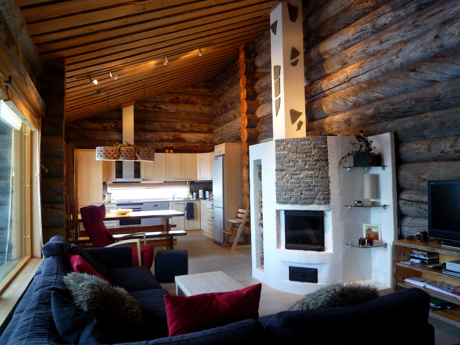 The log cabin in Ruka, northern Finland